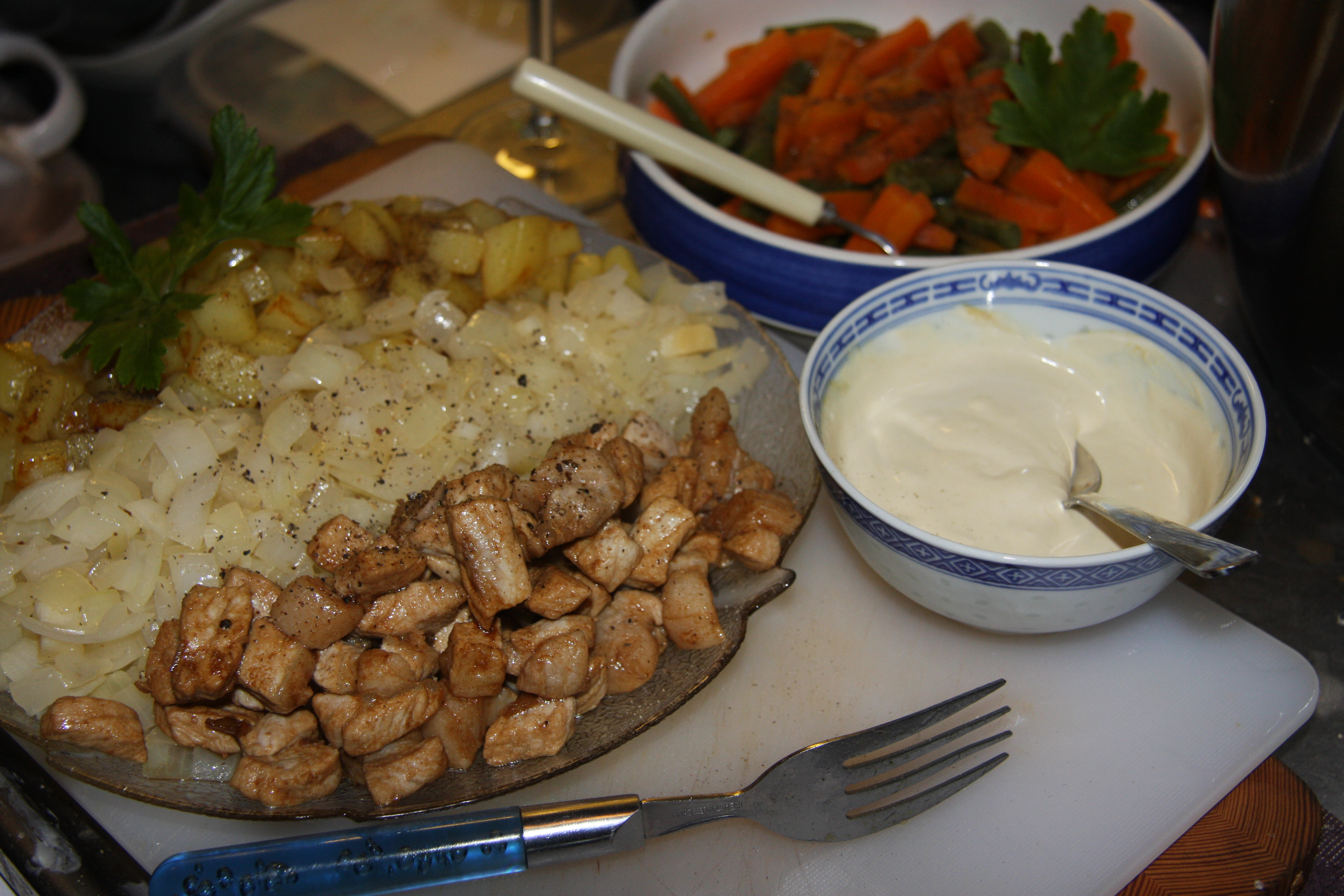 A picture of Beef Rydberg, that's like pytt-i-panna with larger and more expensive ingredients.